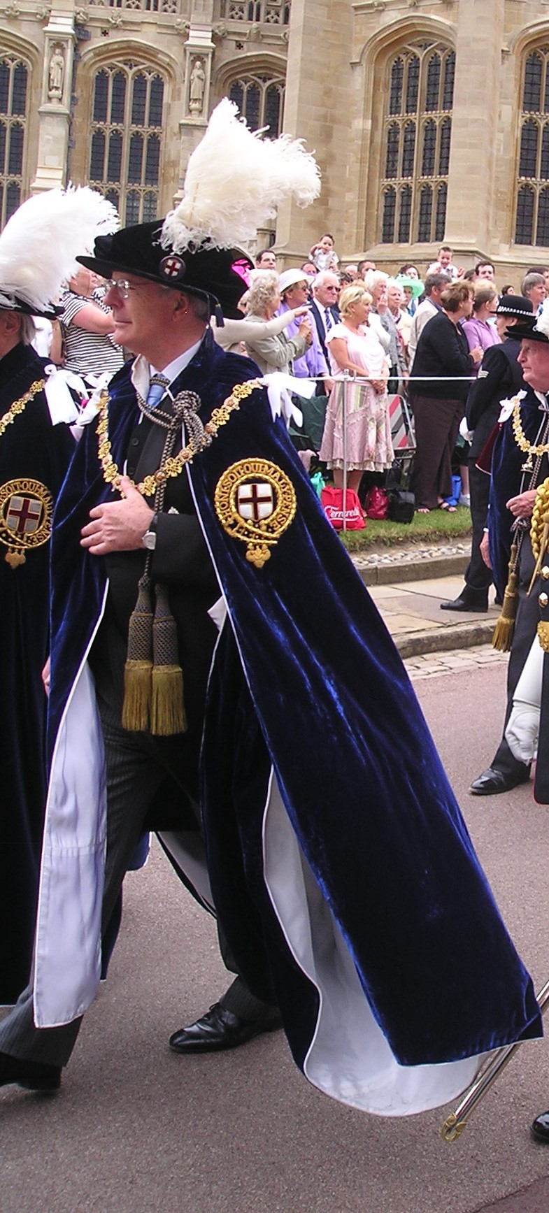 Sir John Major wearing his robes as a Knight Companion of the Order of the Garter, in procession to St George's Chapel, Windsor Castle for the annual service of the Order of the Garter.